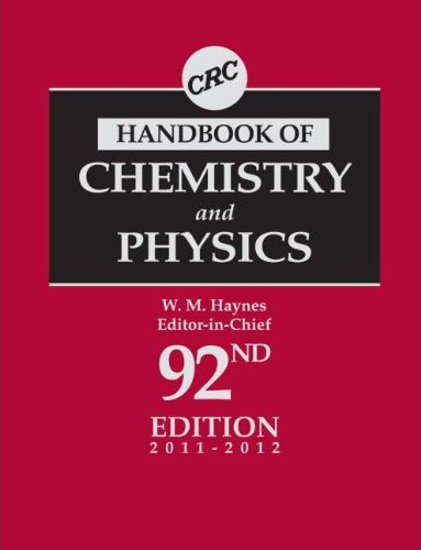 CRC Handbook of Chemistry and Physics, 92nd Edition (Title)